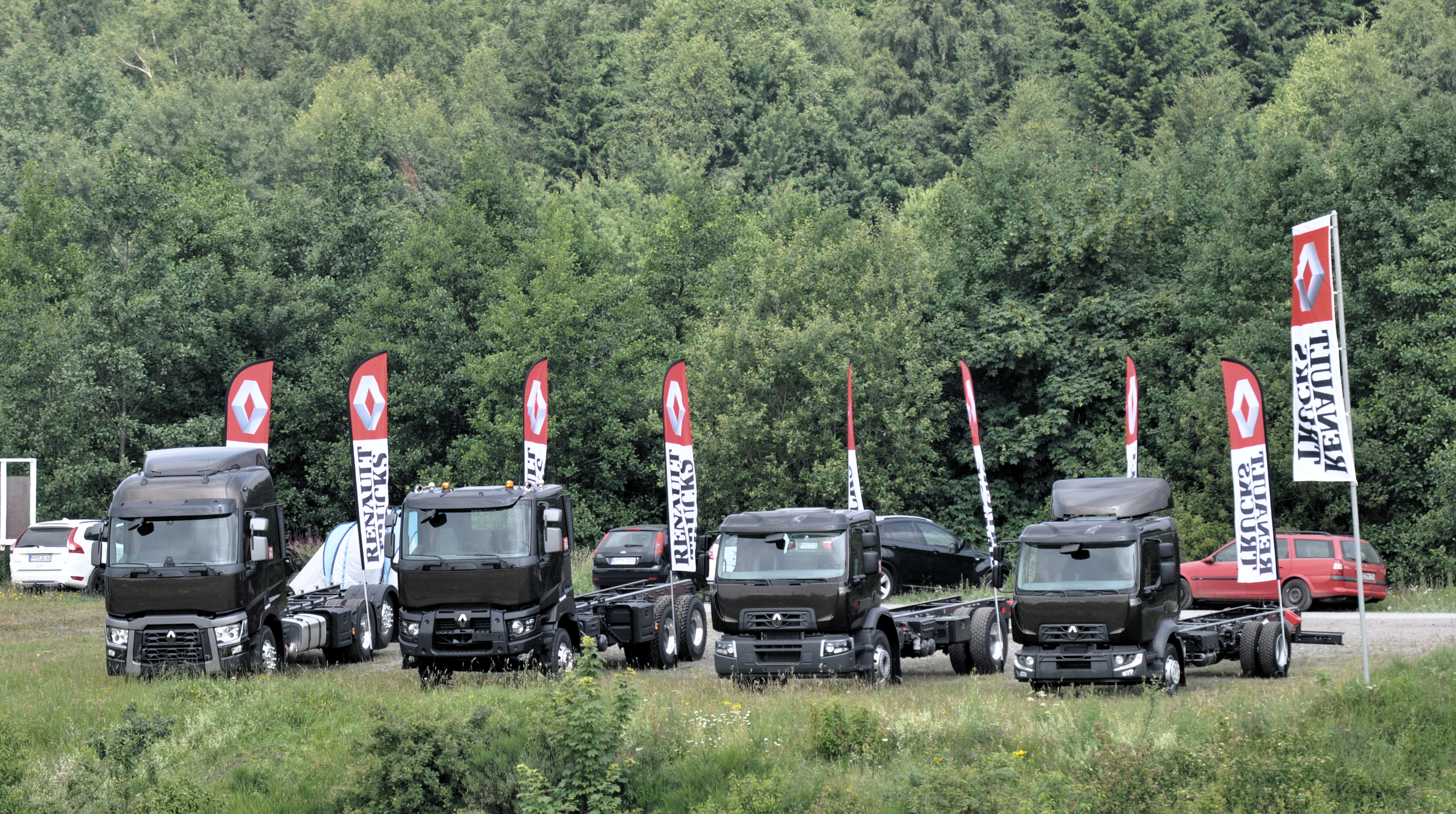 International ADAC Truck Racing Grand Prix, Nürburgring, Germany; MAN Cleaning truck.From left to right: C, K, D Wide and D models.